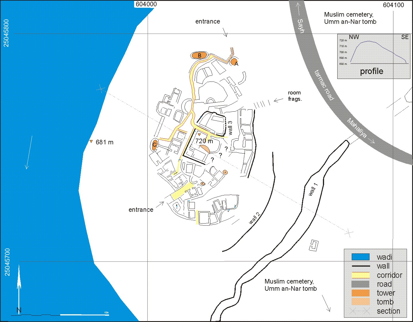 Sketch plan of the archaeological site Qaryat al-Saih in Wadi Mahram, Oman.